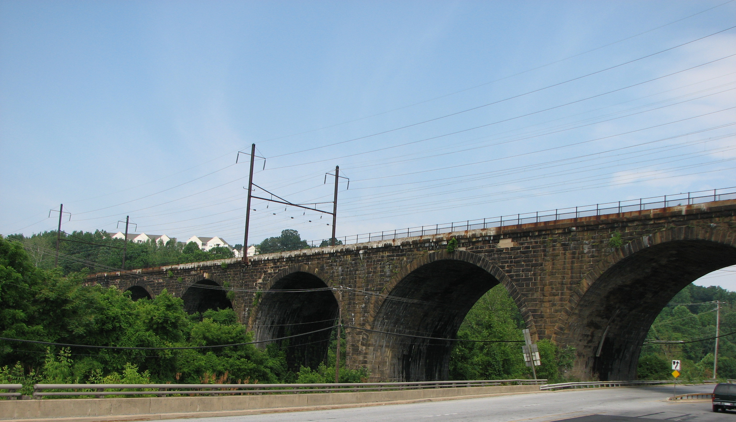 The High Bridge (Coatesville, Pennsylvania) carrying the Keystone Corridor across the West Branch Brandywine Creek.